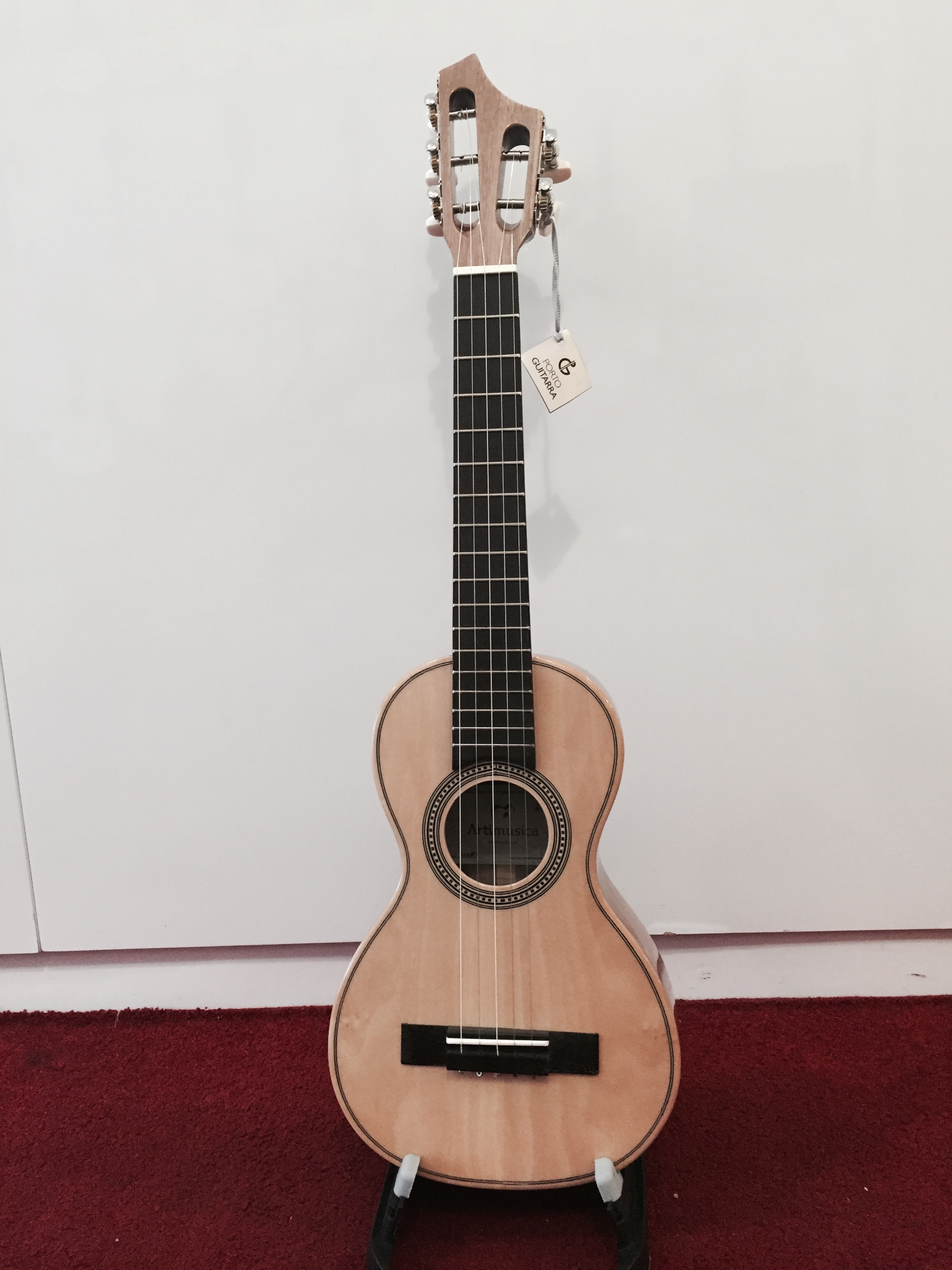 A rajão, of the type played in Madeira, made in Portugal and sold at Porto Guitarra in Porto.